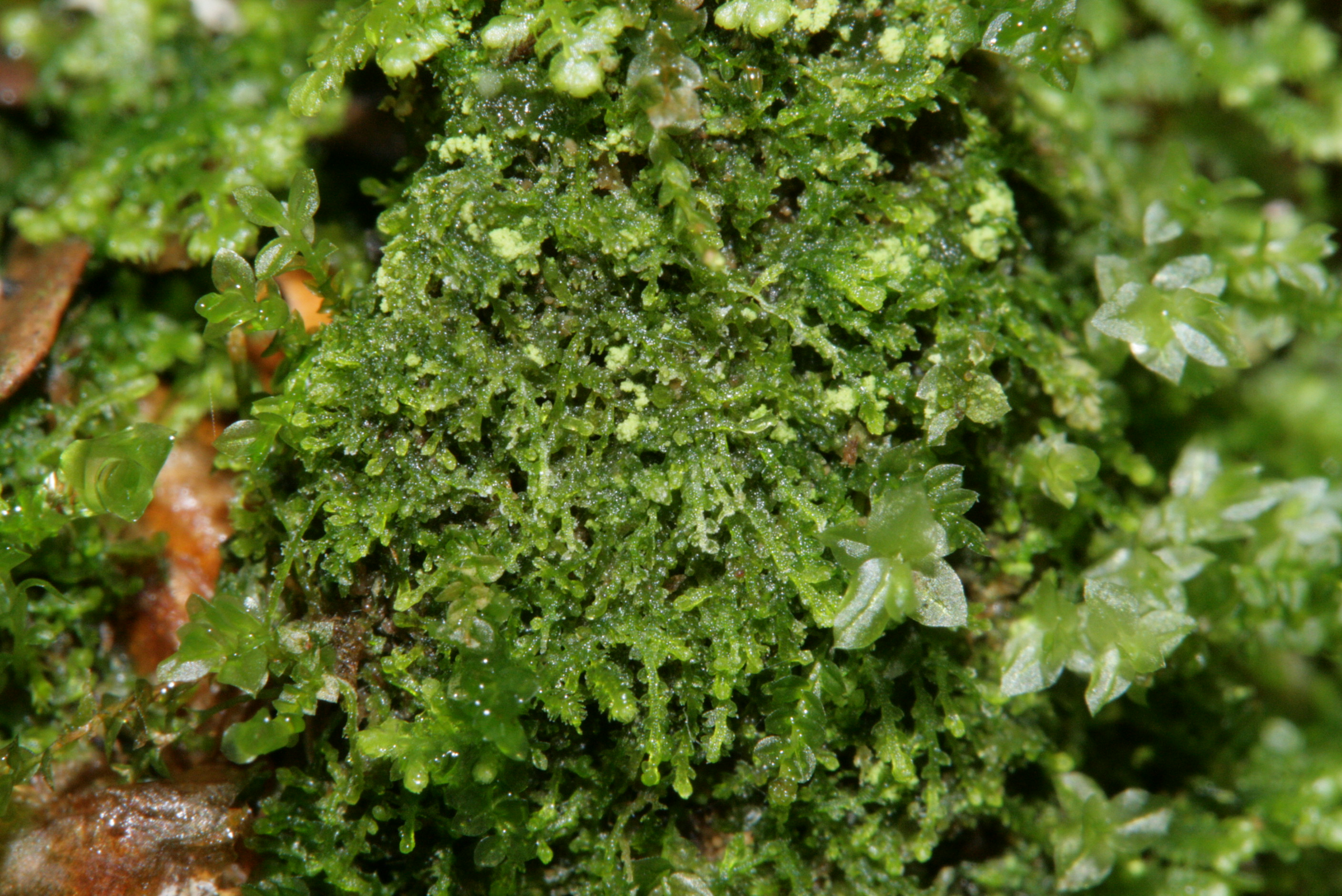 Cephalozia lunulifolia